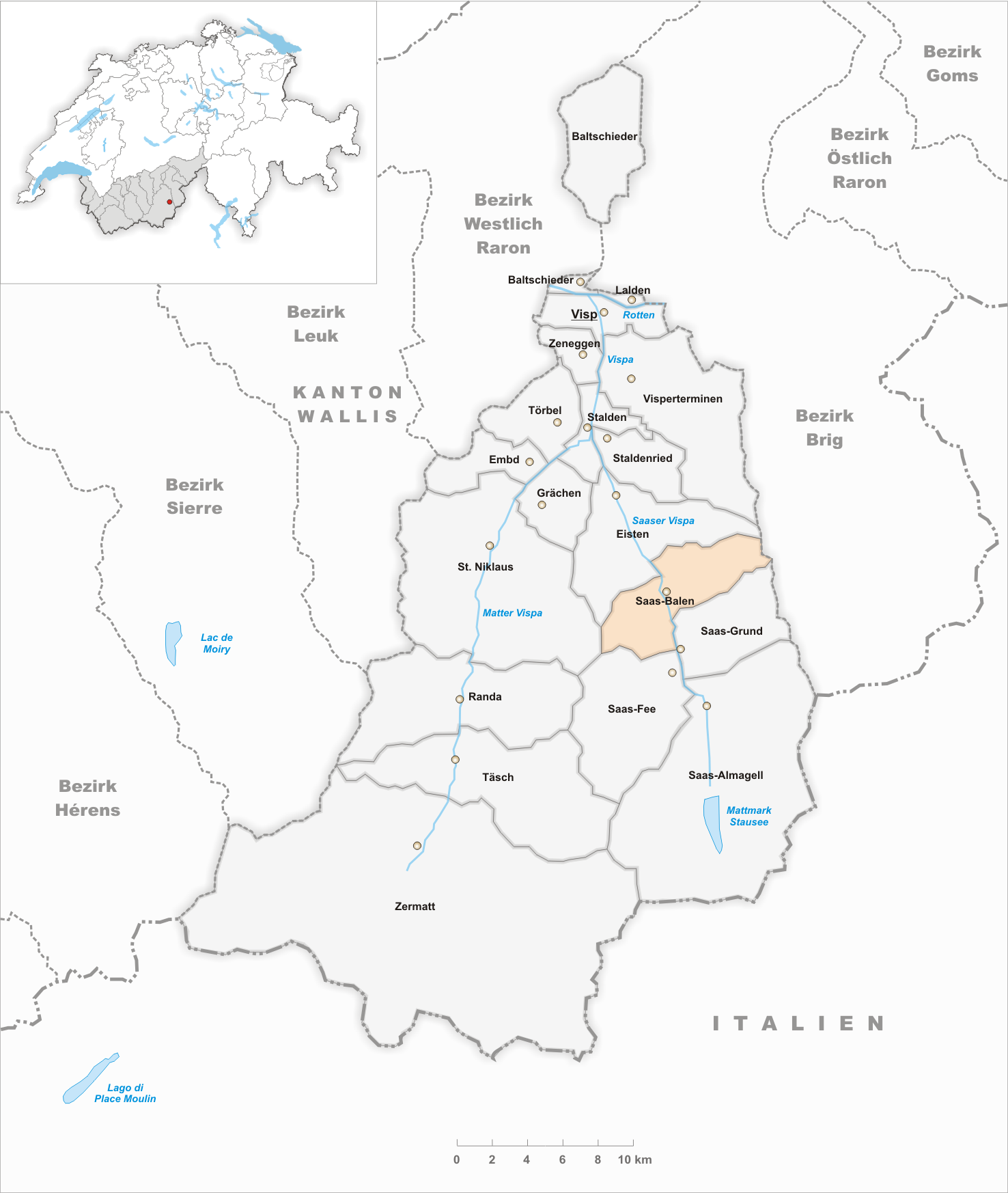 Municipality Saas Balen